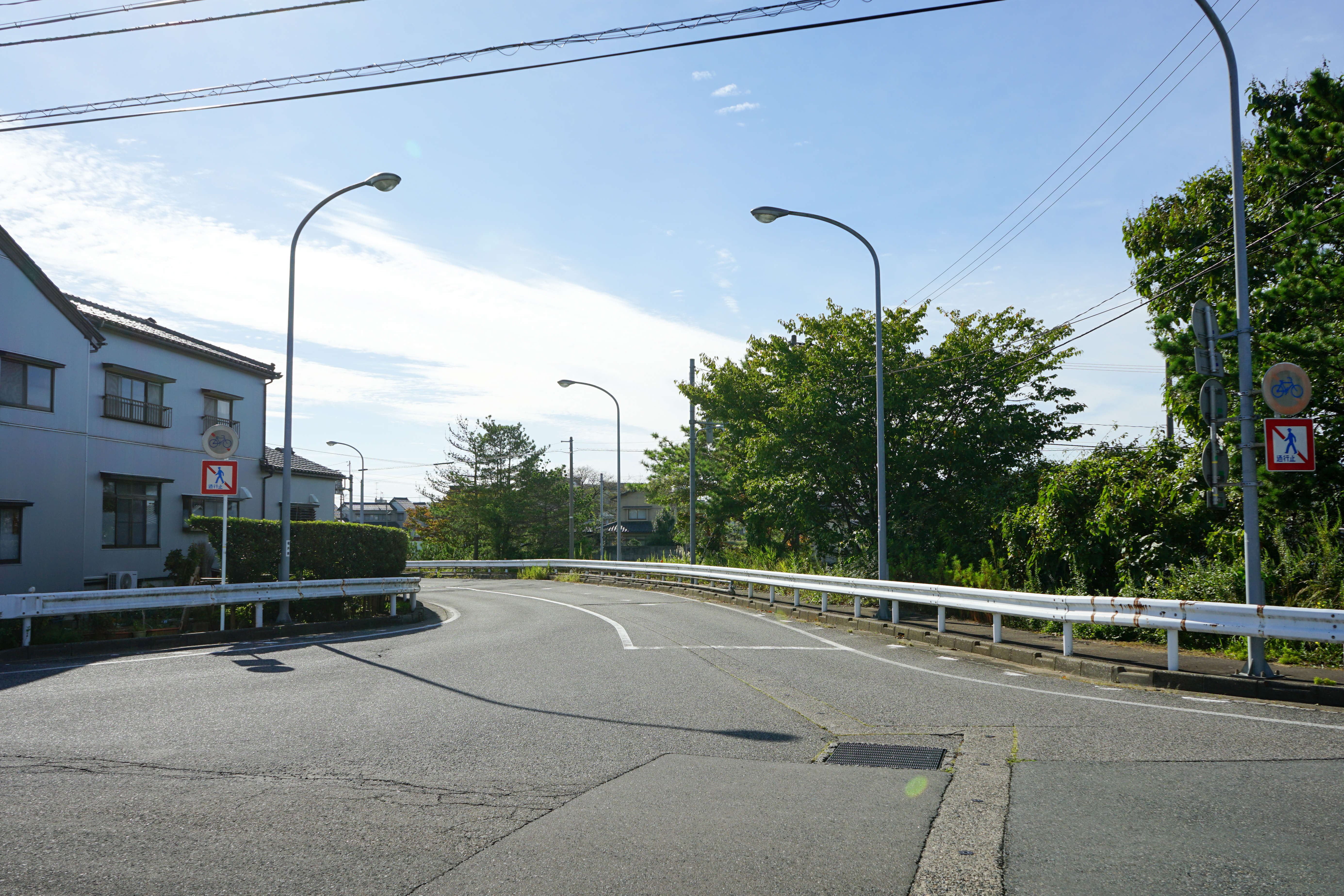 Harumiya Crossroads, Awara-shi, Fukui Prefecture, Japan